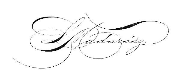 Signature of Louis Madarasz (1859 – 1910), American calligrapher